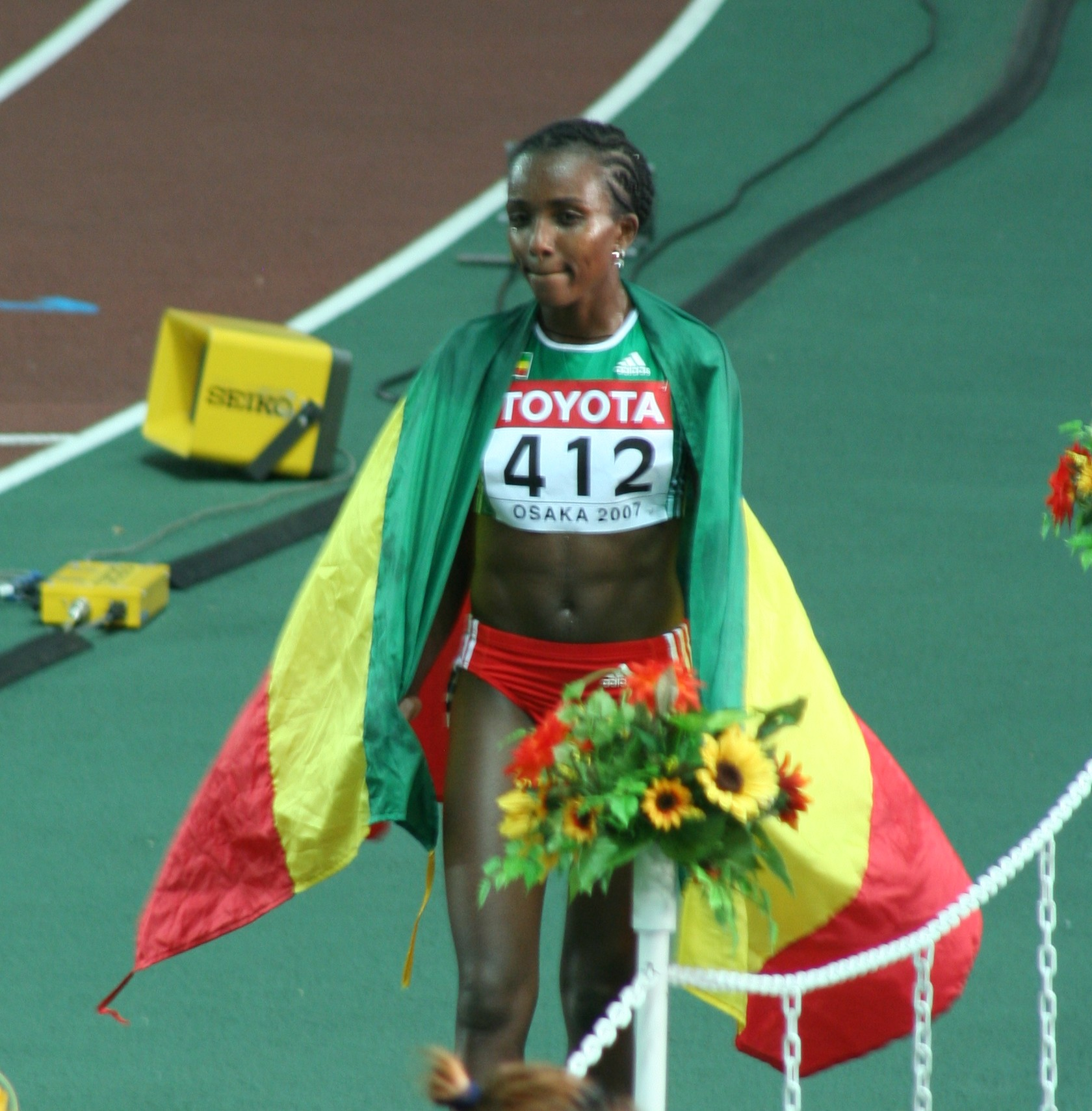 World Athletics Championships 2007 in Osaka - Women's 10000 Meter Champion Tirunesh Dibaba celebrating